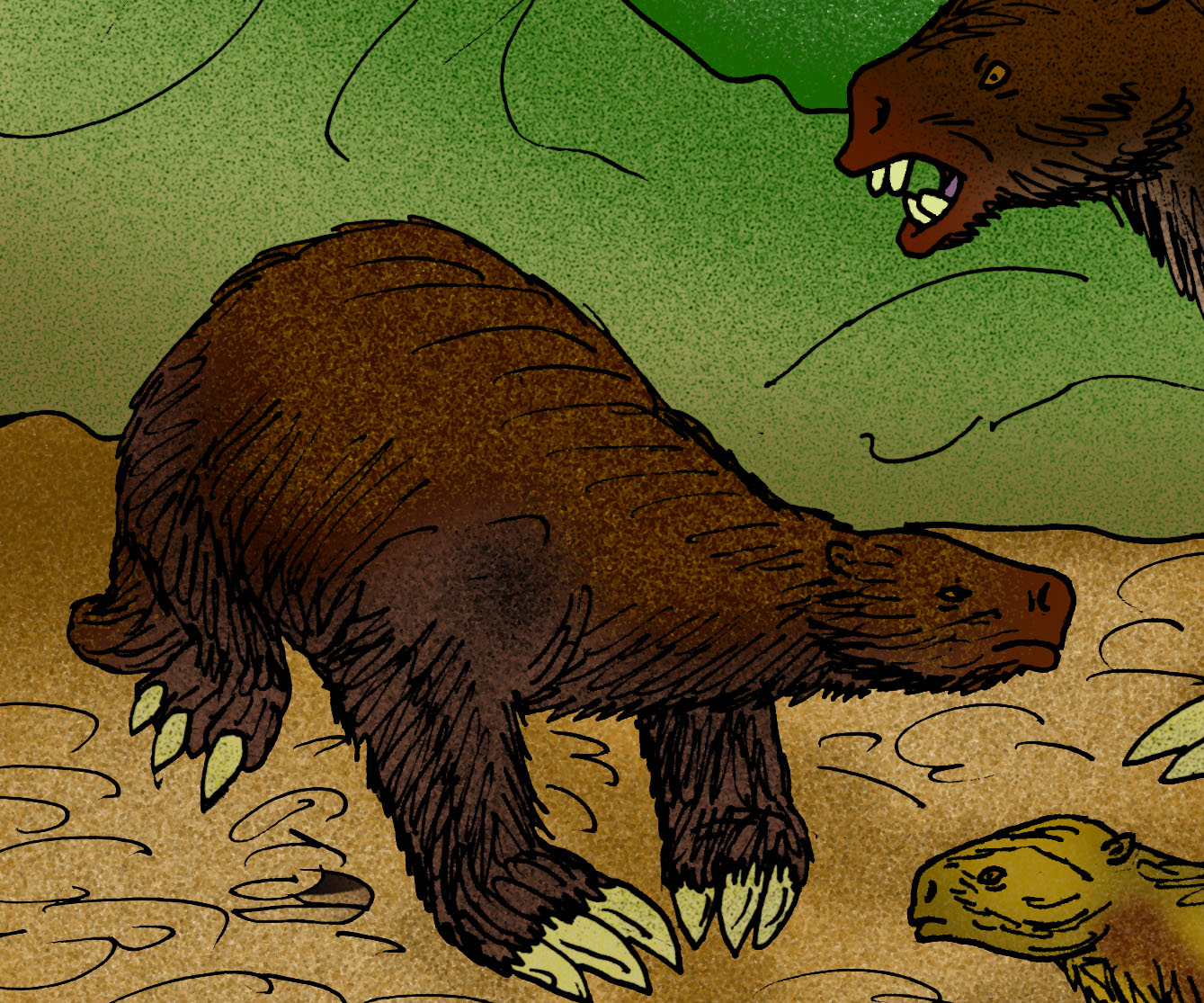 Reconstruction of the Havana ground sloth Habanocnus hoffstetteri, of Late Pleistocene Cuba. (C) Stanton F. Fink (Note - Habanocnus hoffstetteri is currently regarded as being within the range of variation of Acratocnus antillensis. WolfmanSF (talk) 18:53, 30 November 2009 (UTC)